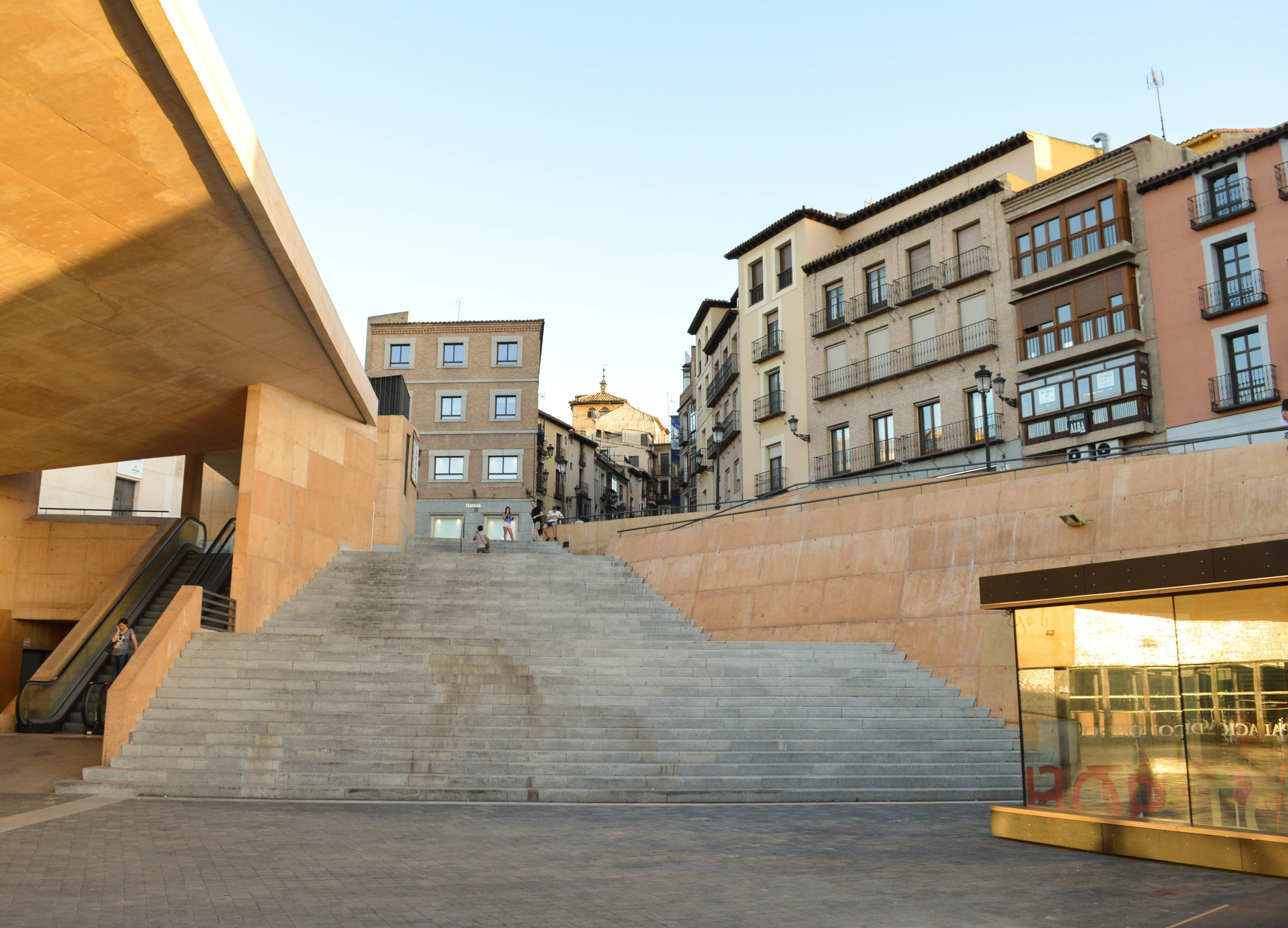 Theater entrance in Toledo